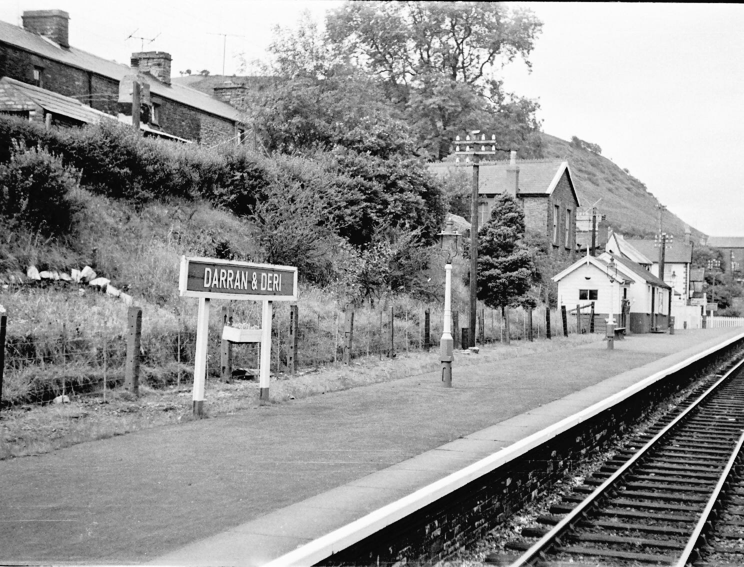 Darran and Derri station